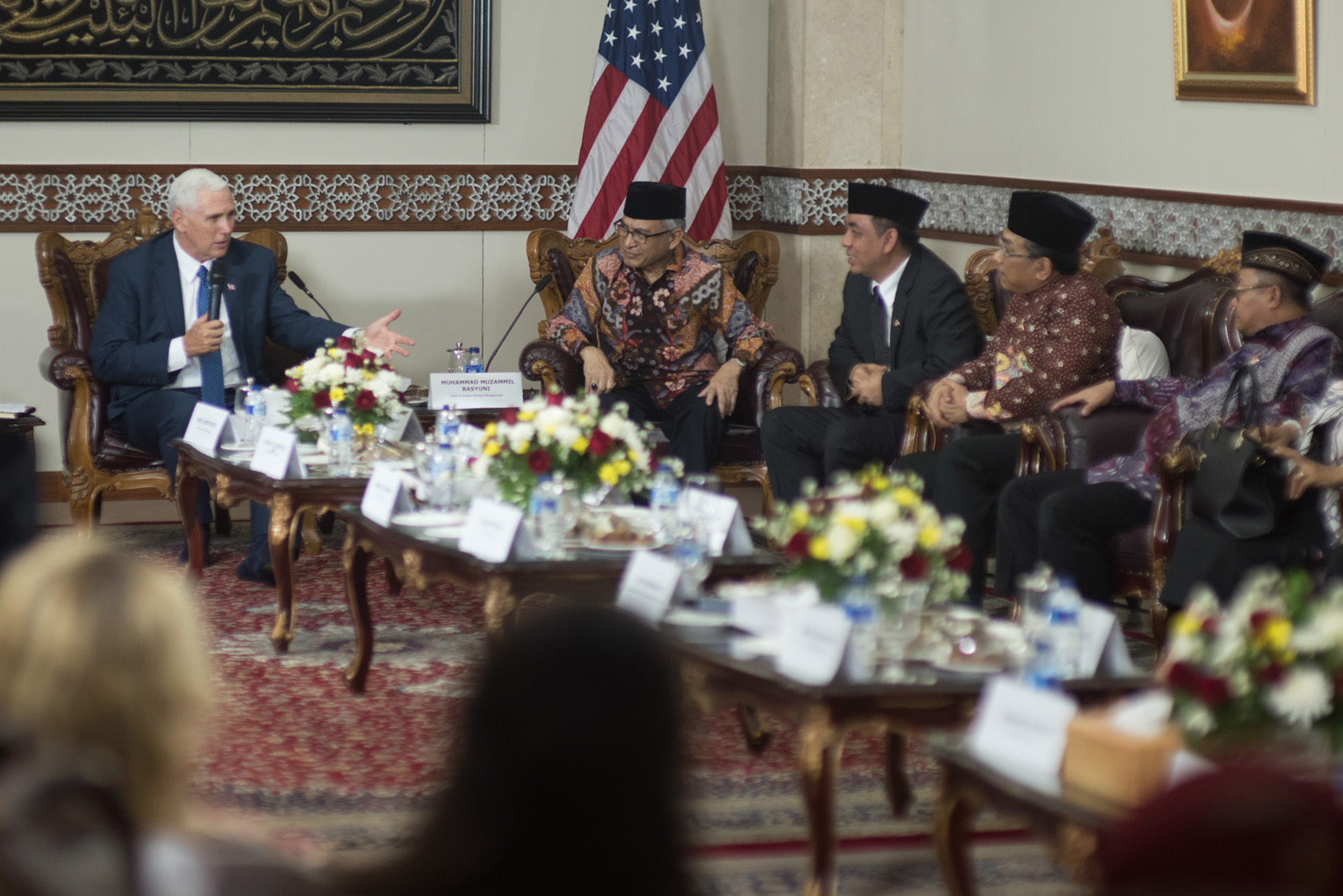 Mike Pence visits Indonesia. In this photo he is meeting with Vice President Kalla and Cabinet Ministers.